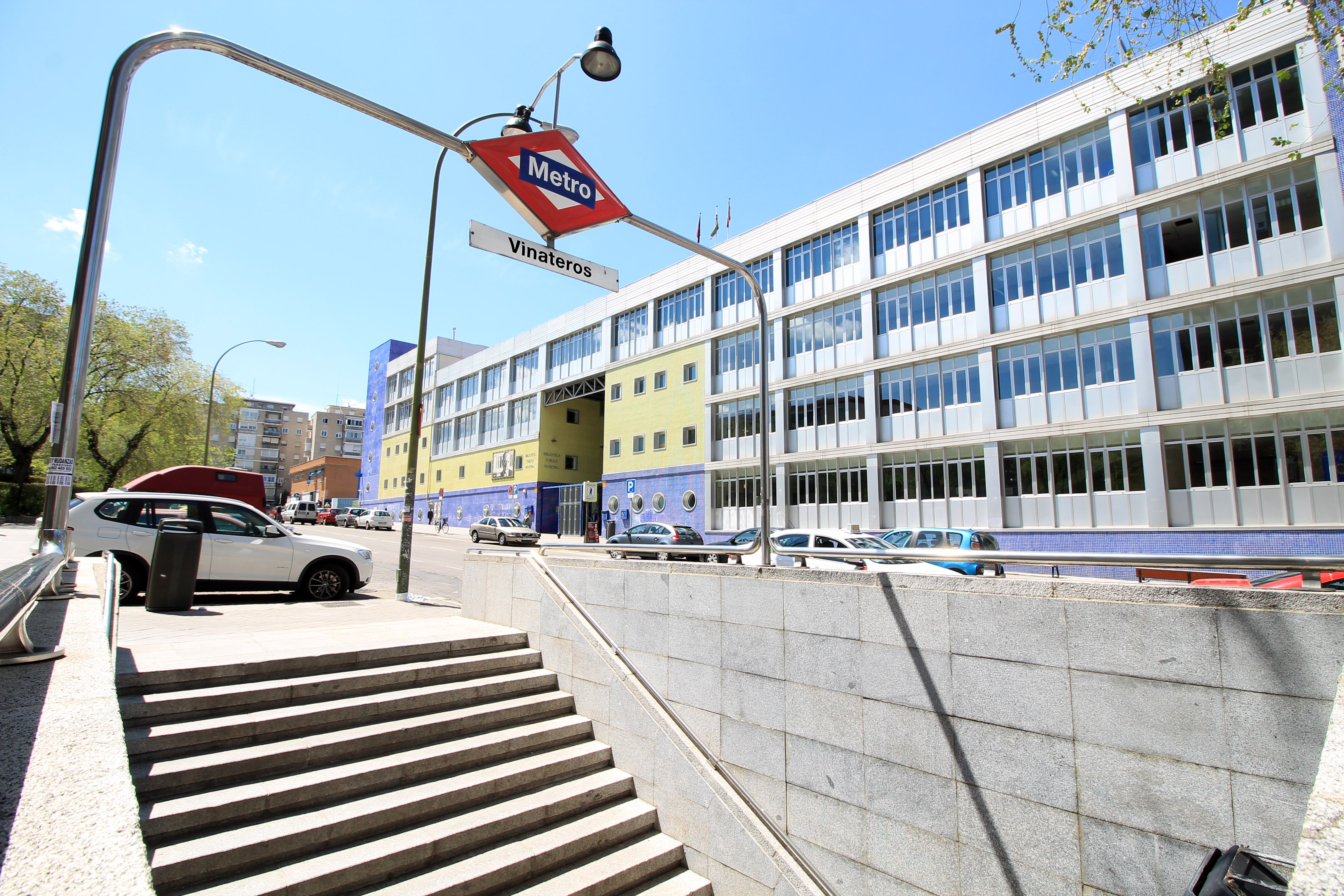 Entrance of Vinateros metro station in Madrid (Spain). Background: Centro Cultural Eduardo Chillida (a cultural centre).